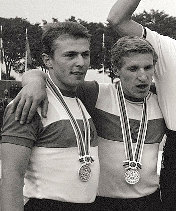 Soviet cyclists Imants Bodnieks and Viktor Logunov after the tandem on track awards ceremony at the Tokyo Olympics.Tokyo, October 1964